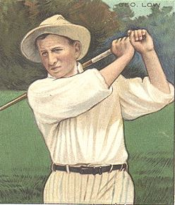 A snip of a 1910 cigarette card showing professional golfer George Low, Sr. (1874-1950). The image depicts Mr. Low in his follow through and dates c. 1910.